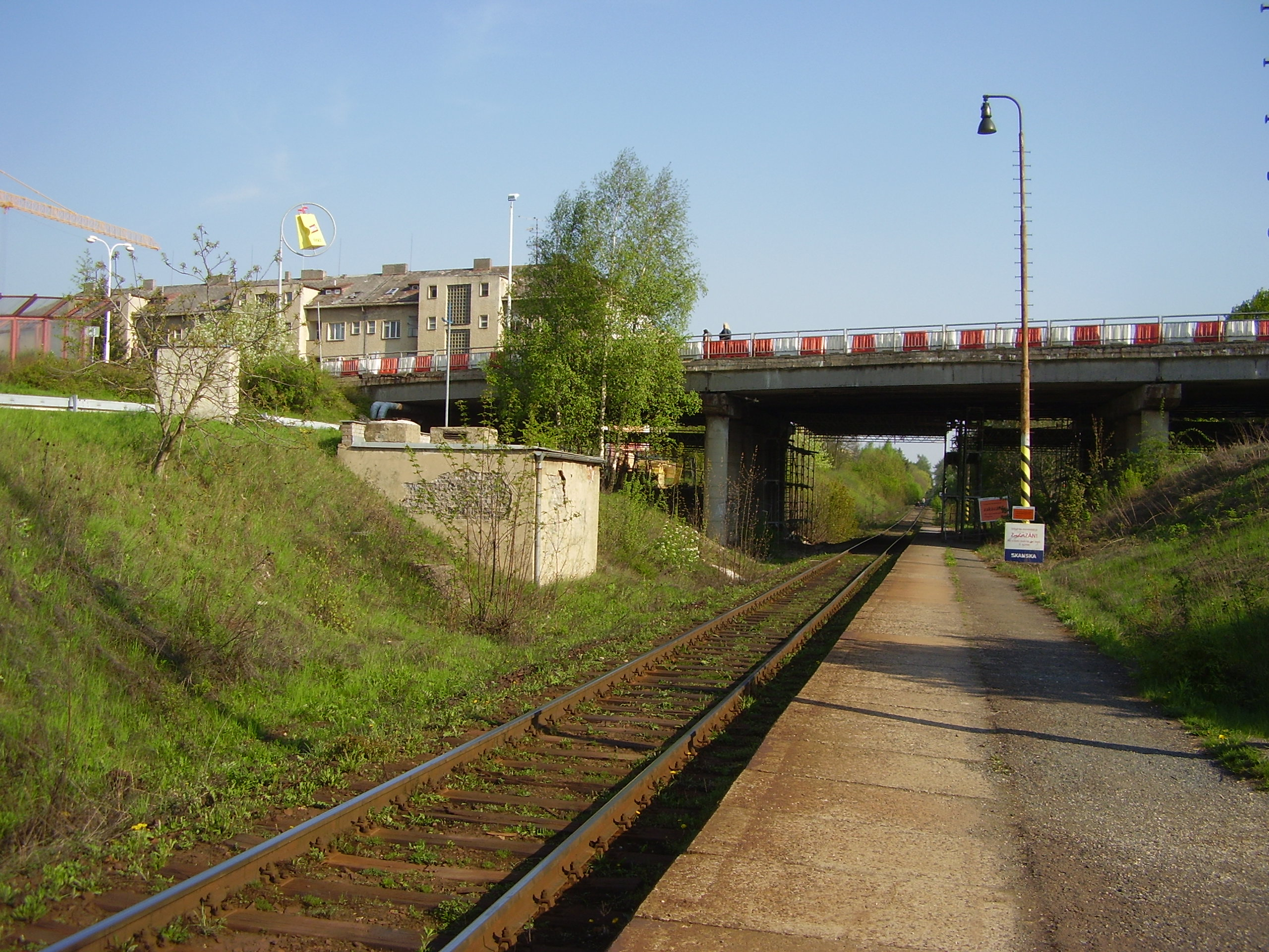 Kladno město trani stop